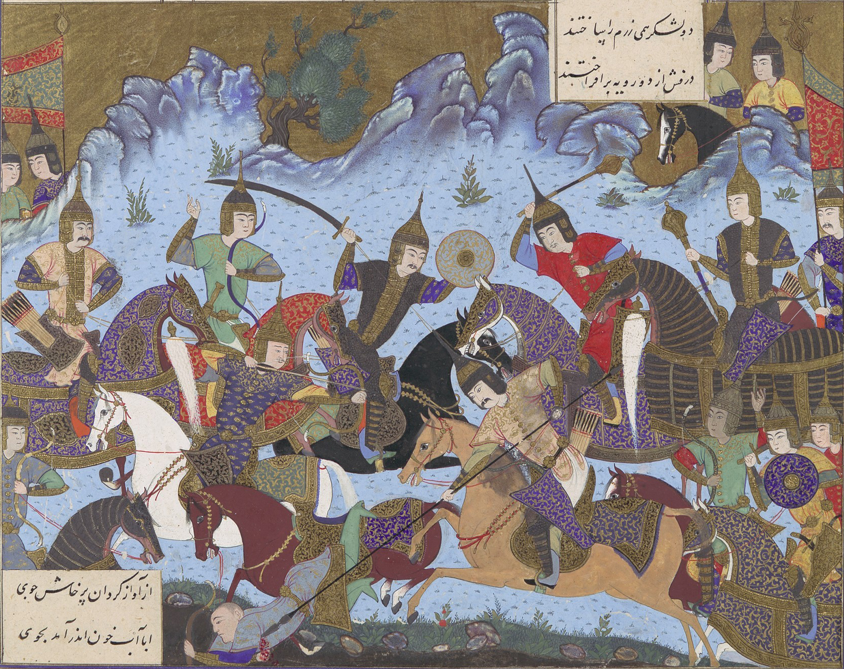 Sukhra defeating the Hephthalites.